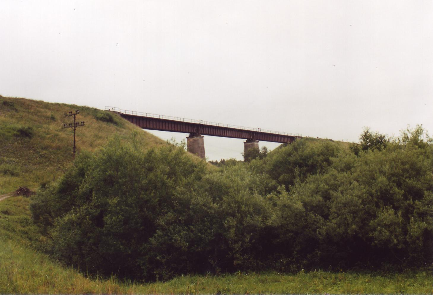 Kūlupėnai, Kretinga district, LithuaniaLietuvių: Kūlupėnų geležinkelio tiltas, Kretingos rajonas, Lietuva